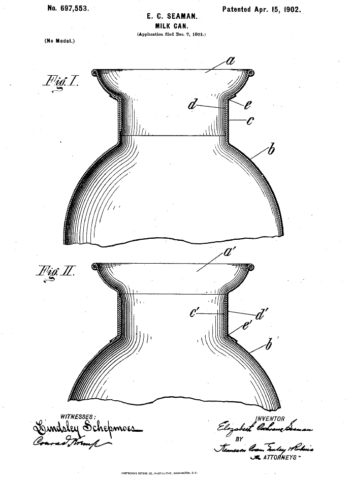 Improvement in milkcans